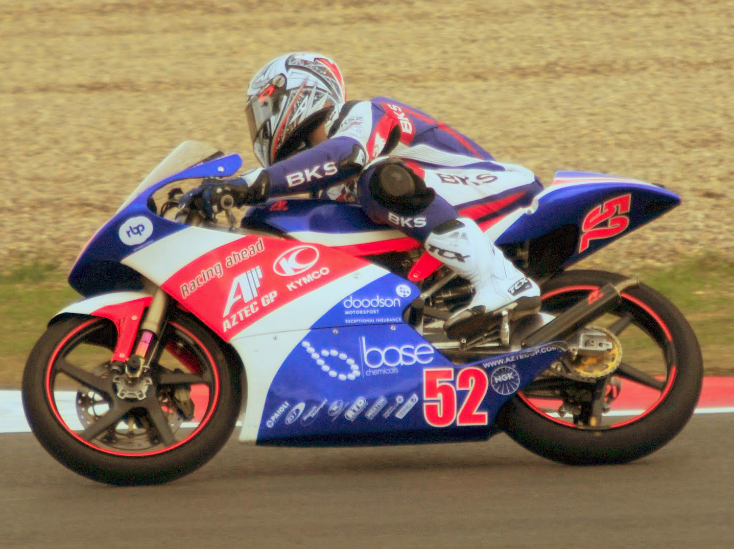 Danny Kent 2010 Silverstone